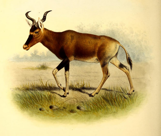 Illustration of Swayne's hartebeest